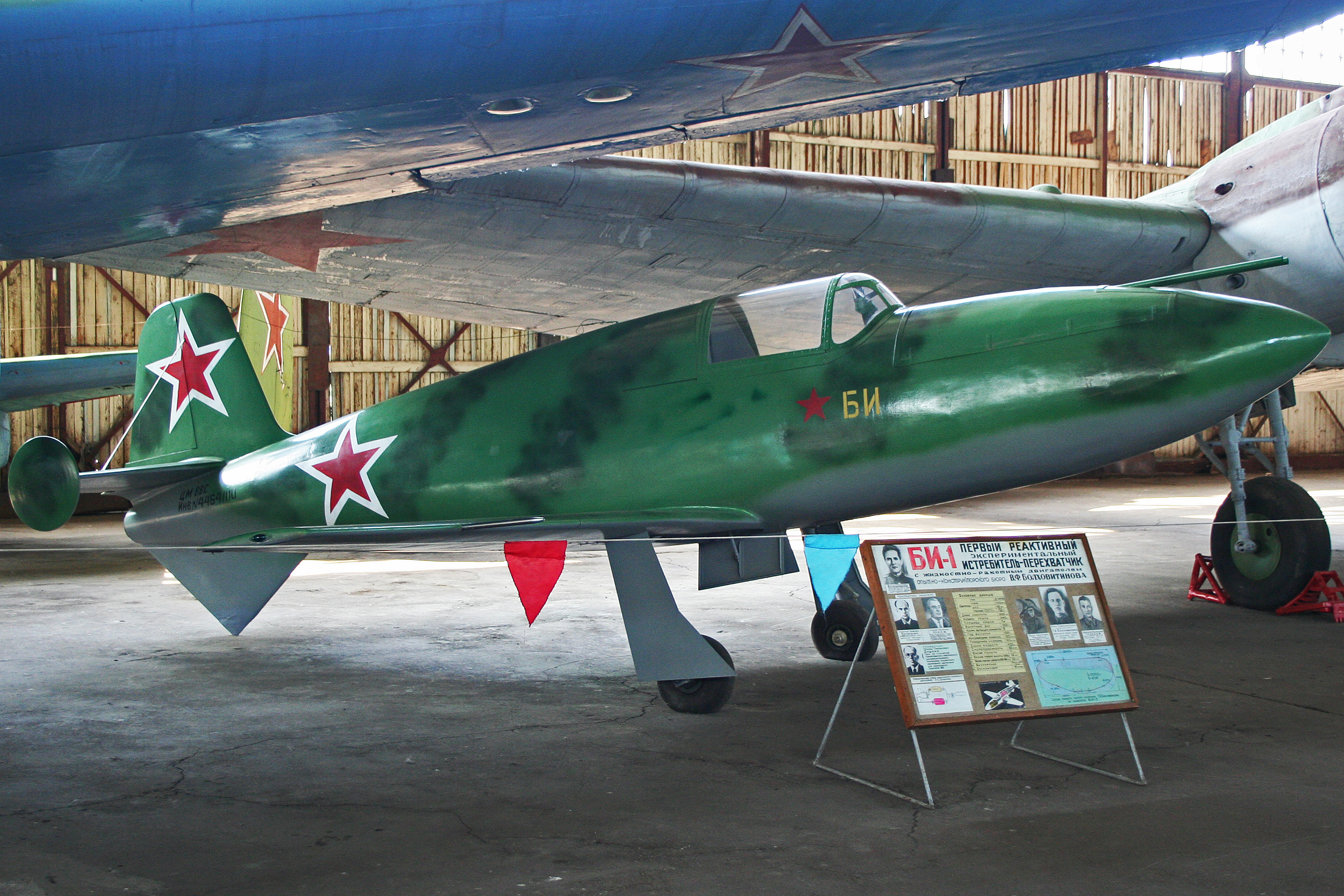 This is a full size replica of a Russian experimental rocket fighter from WW2. It is on display in the original display hangar at the Russian Air Force Museum. Monino, Russia. 13-8-2012